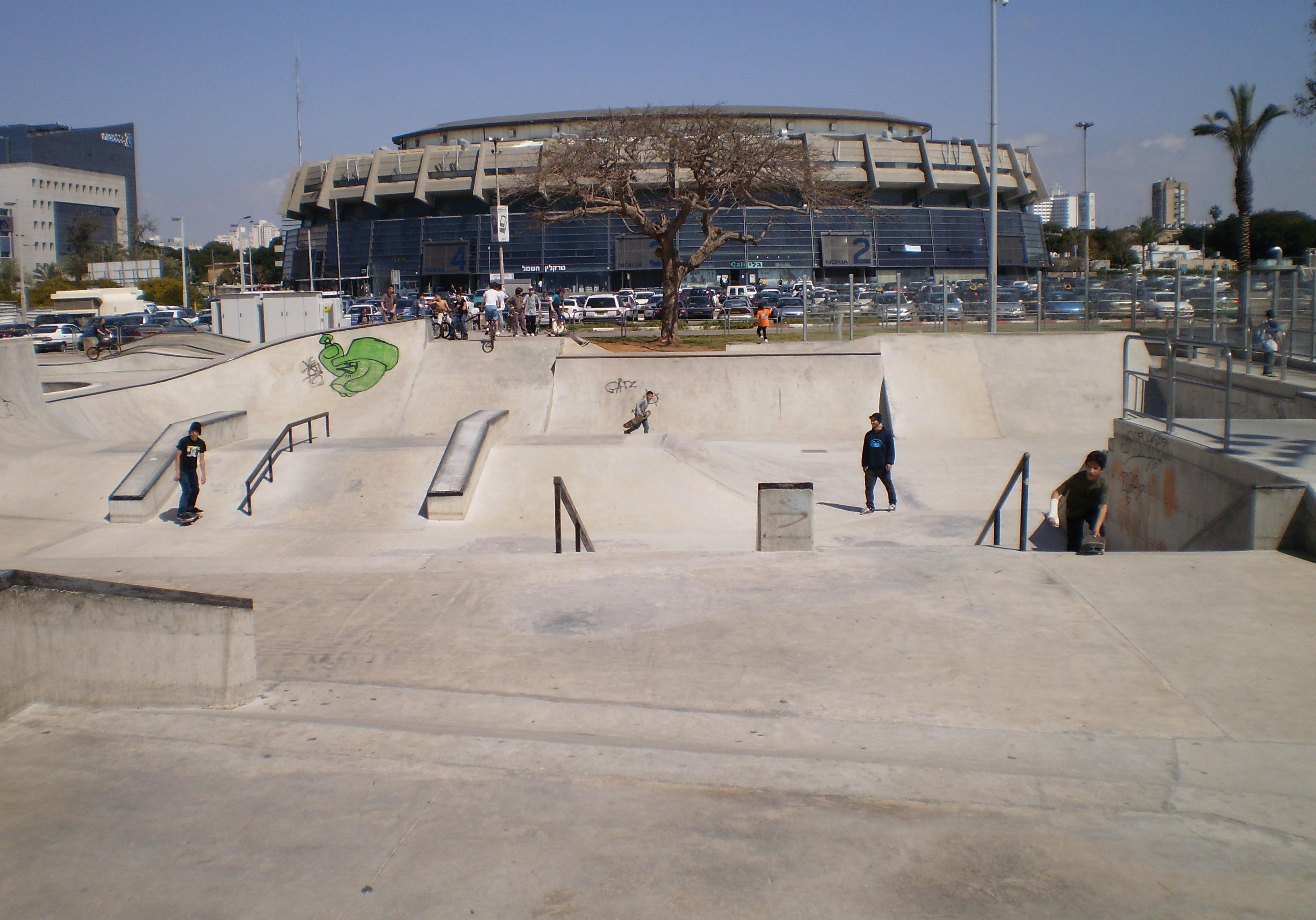 Skatepark_Galit, Yad Eliyaho, Tel Aviv